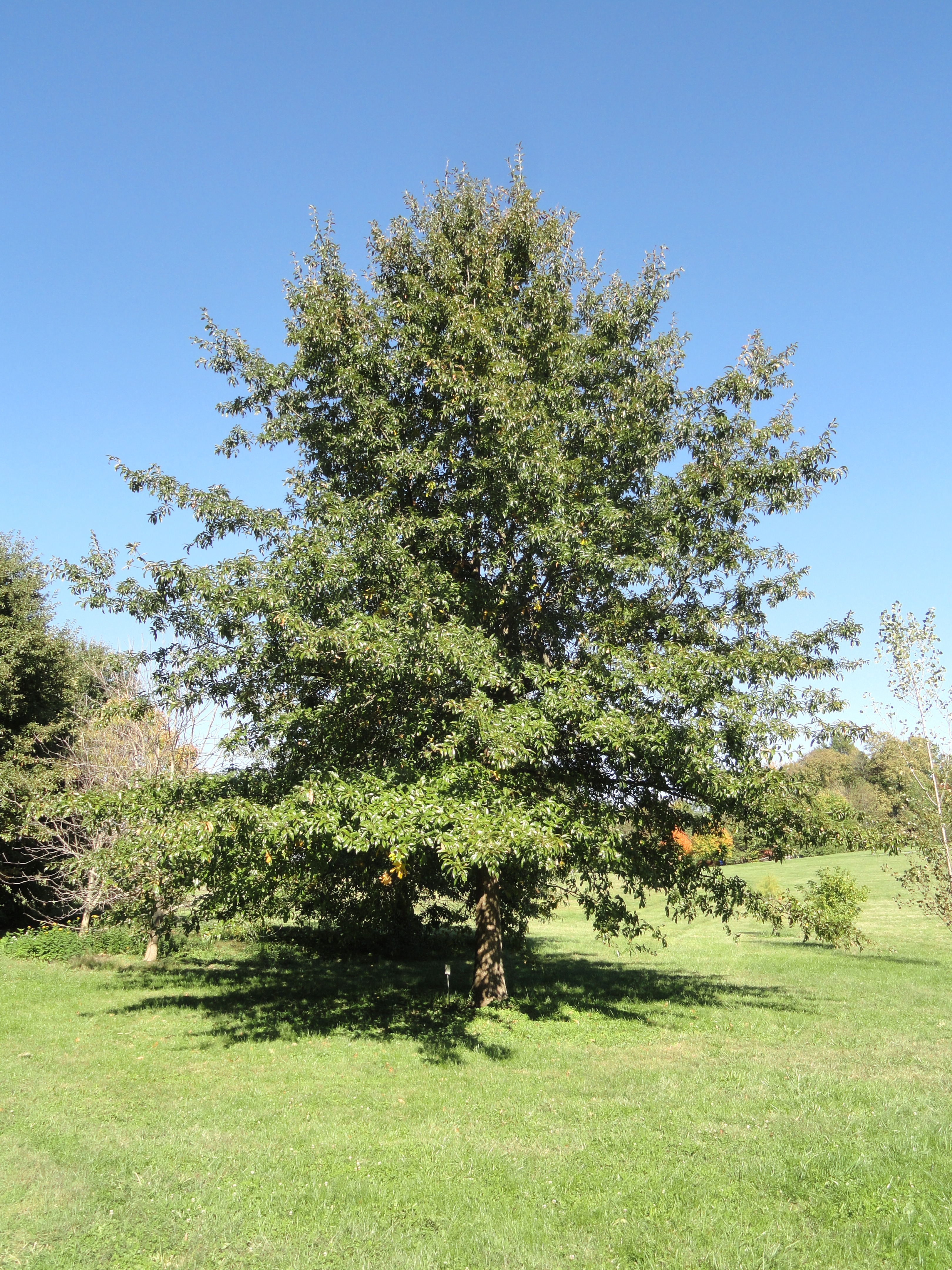 Botanical specimen in the University of Kentucky Arboretum, Lexington, Kentucky, USA.